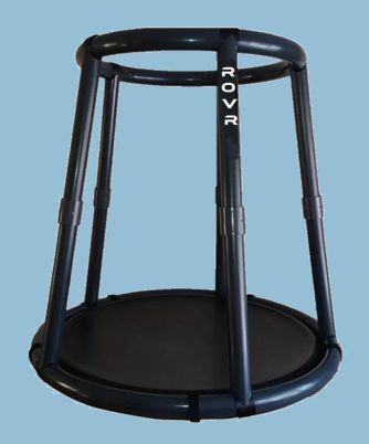 The Wizdish ROVR1